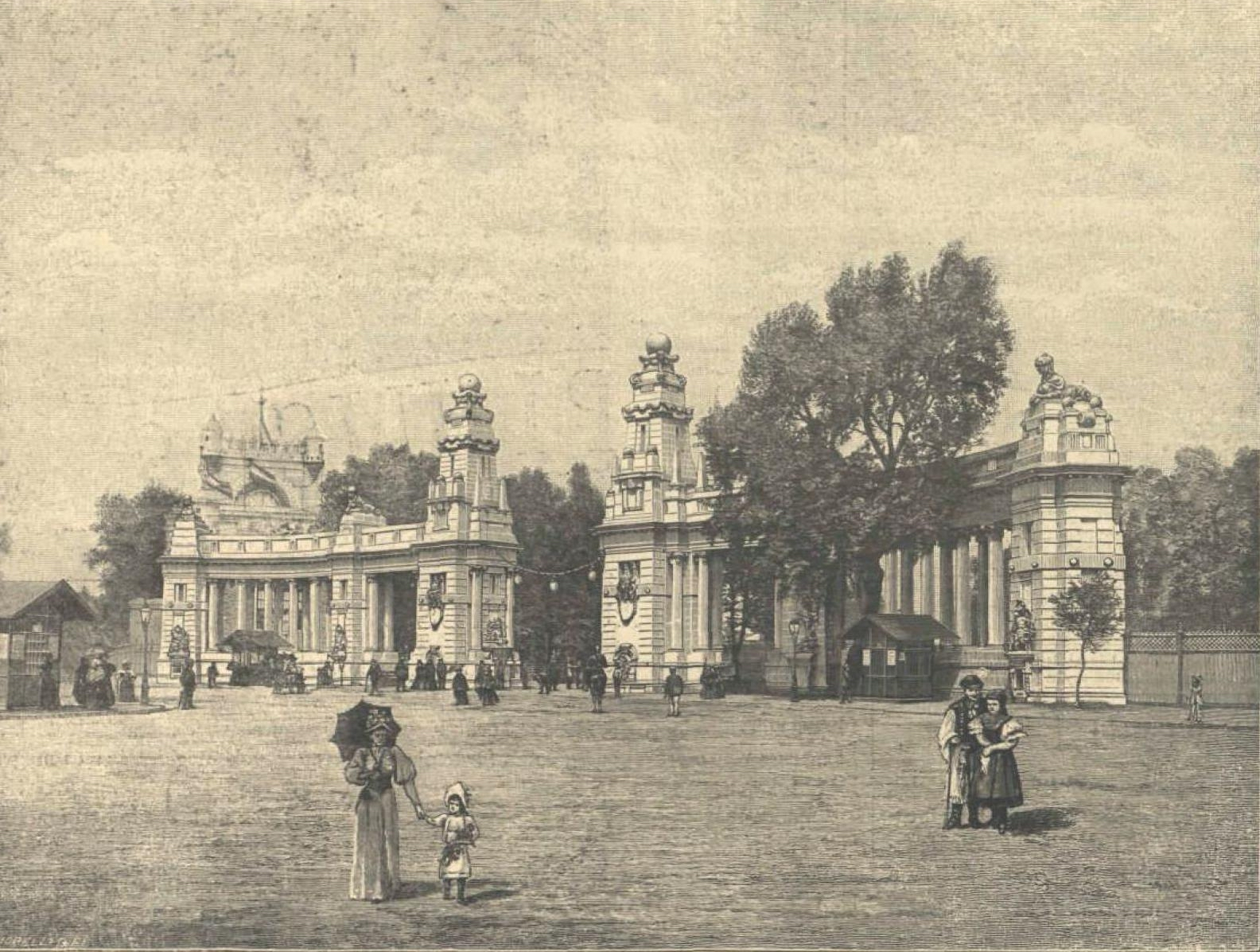 Main gate of the millennial exhimbition in Budapest